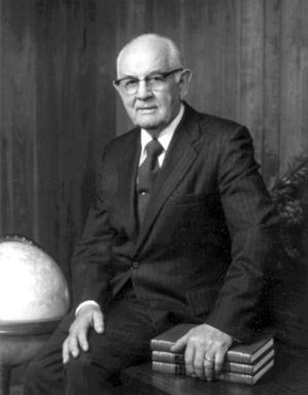 Spencer Woolley Kimball, the twelfth president of The Church of Jesus Christ of Latter-day Saints (LDS Church) from 1973 until his death in 1985.